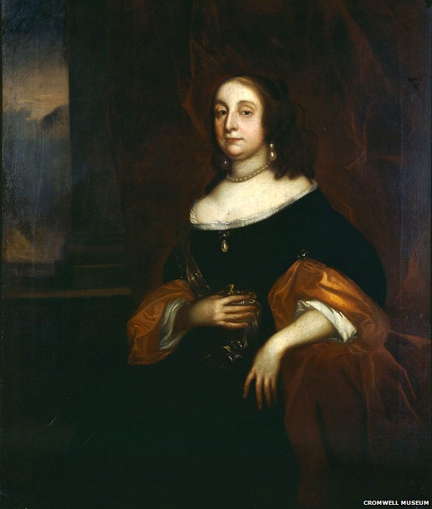 Elizabeth Bourchier, Lady Protectress of England, Scotland and Ireland